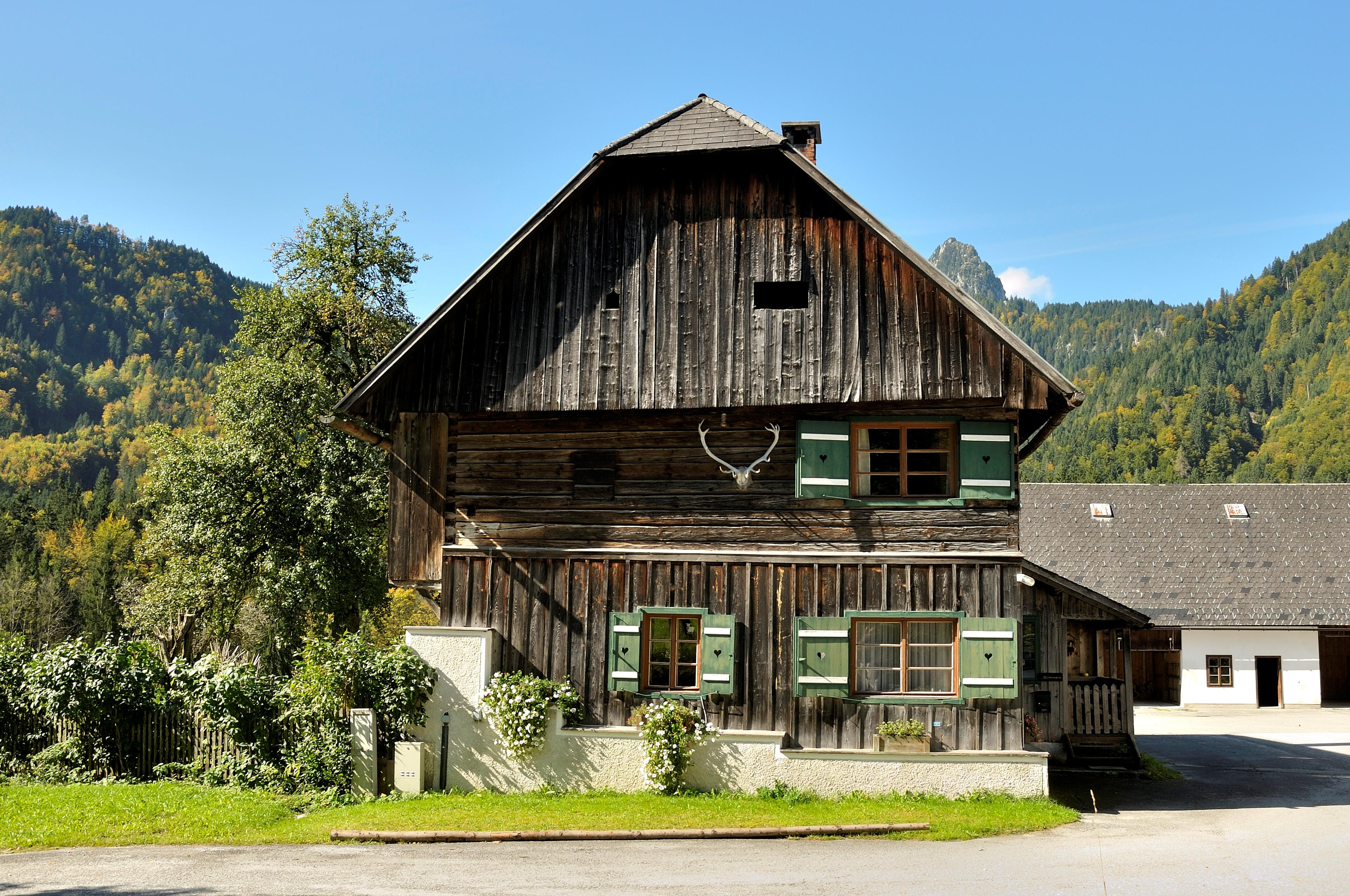 Forester´s lodge close to the scythe forge in Weißenbach near Liezen, Austria.